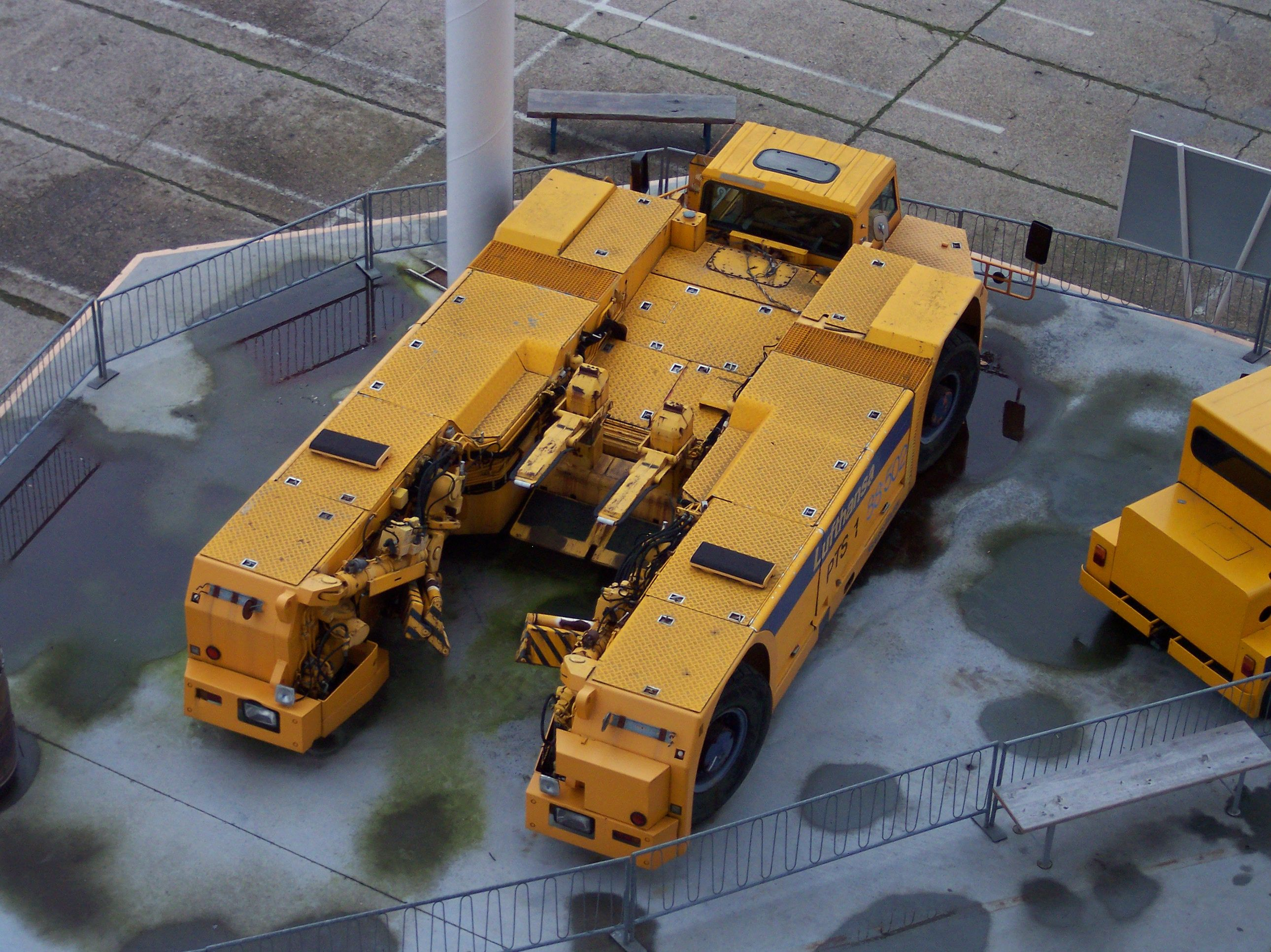 Pushback tractor (Krauss-Maffei)